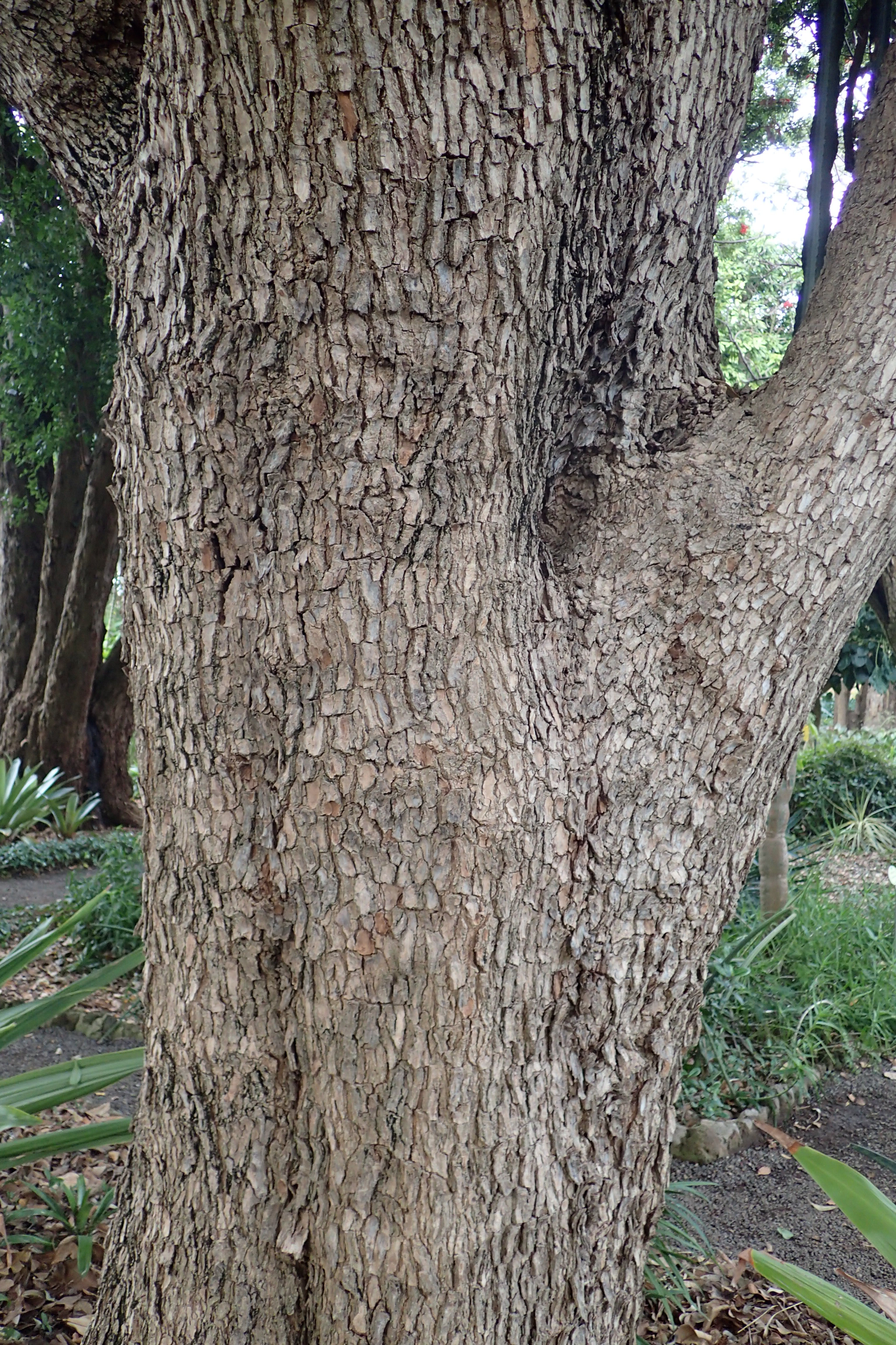 Planchonella obovata (described as Sideroxylon argenteum) in Jardín de Aclimatación de la Orotava